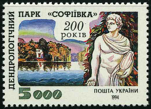 Ukrainian stamp, 200th anniversary of Sofiyivka national park, 1994.